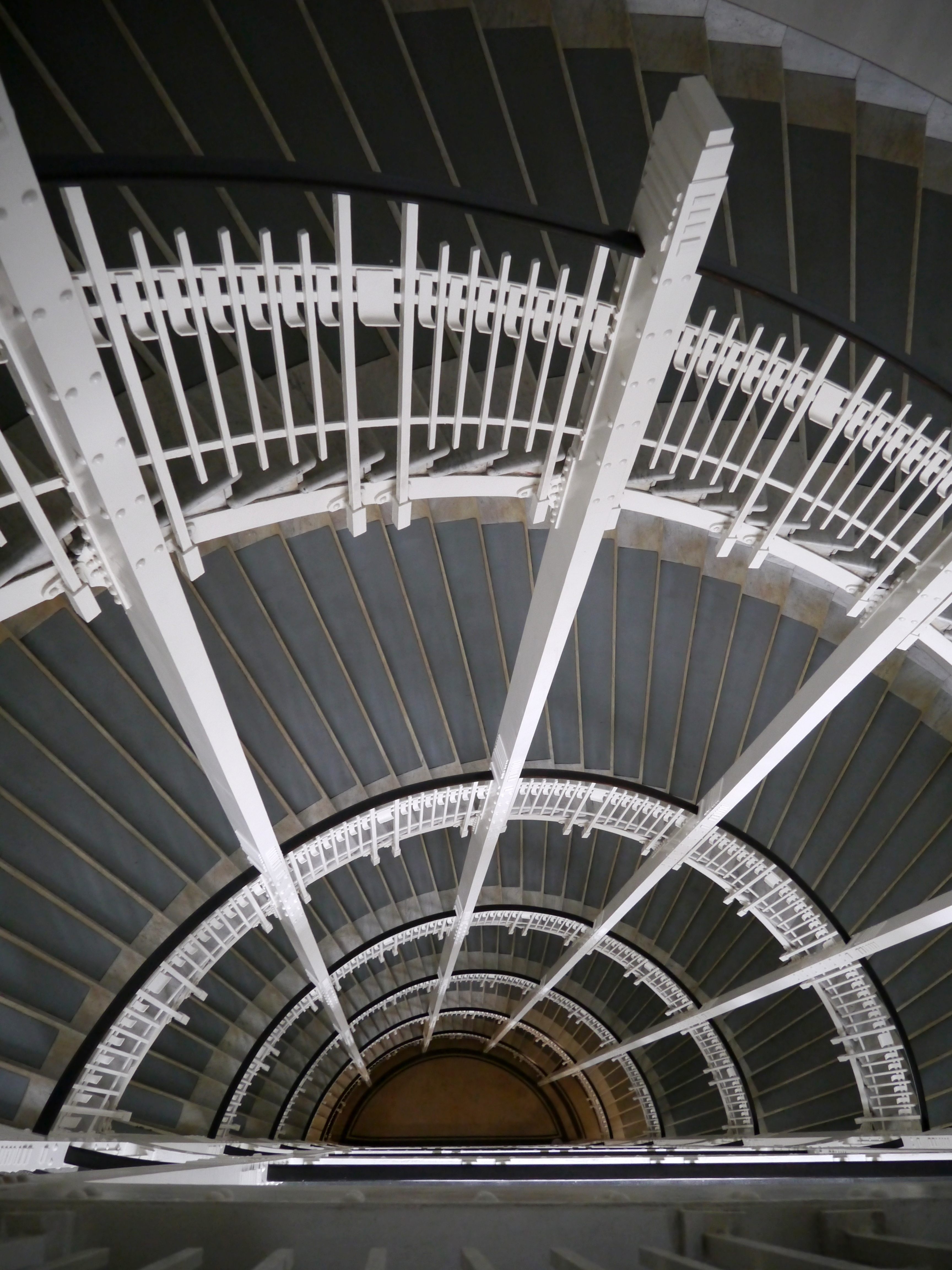 The Austrian Postal Savings Bank building ( German language: Österreichische Postsparkasse) is a famous modernist building in Vienna, designed and built by the architect Otto Wagner. The building is regarded as an important early work of modern architecture, representing Wagner's first move away from Art Nouveau and Neoclassicism. It was constructed between 1904 and 1906 using reinforced concrete.